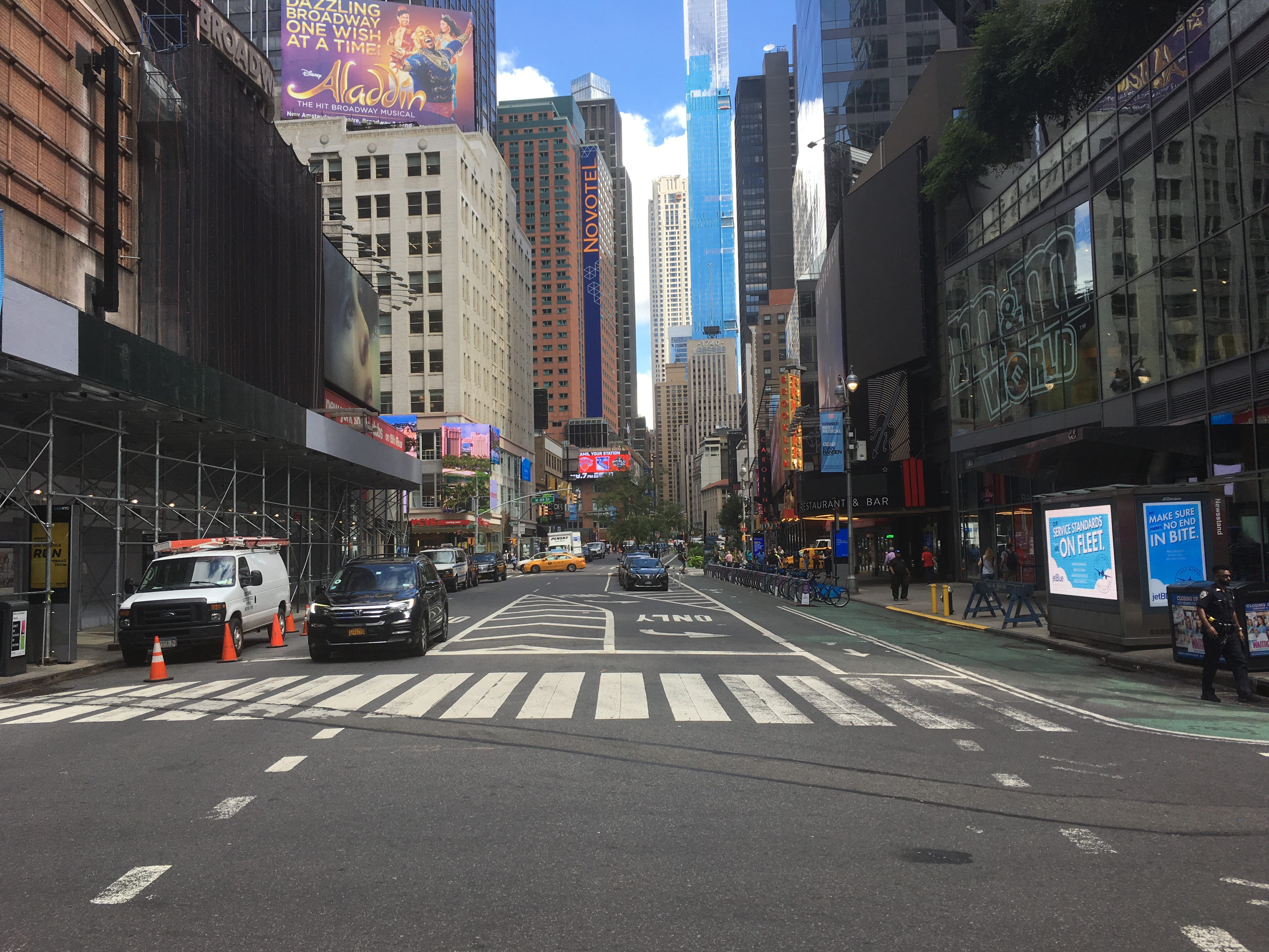 A view of Broadway looking north from 48th Street in Manhattan, New York City